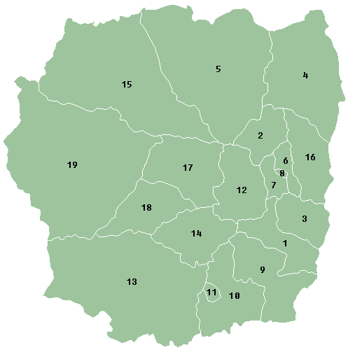 List of districts (fivondronana) in Antananarivo province